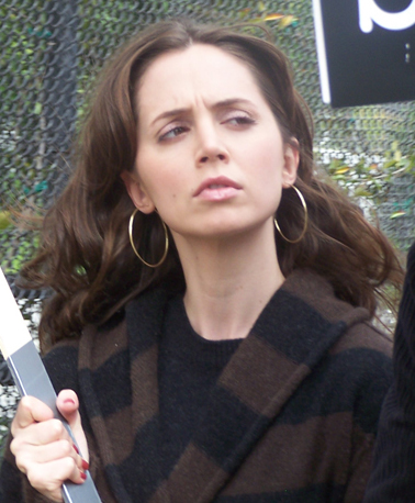 Eliza Dushku in Cheviot Hills, Los Angeles, CA, US.